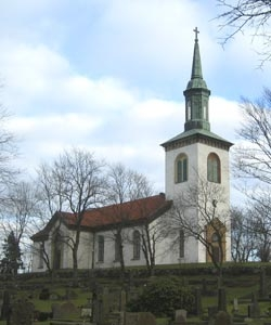 Ytterby Kyrka, Kungälvs kommun